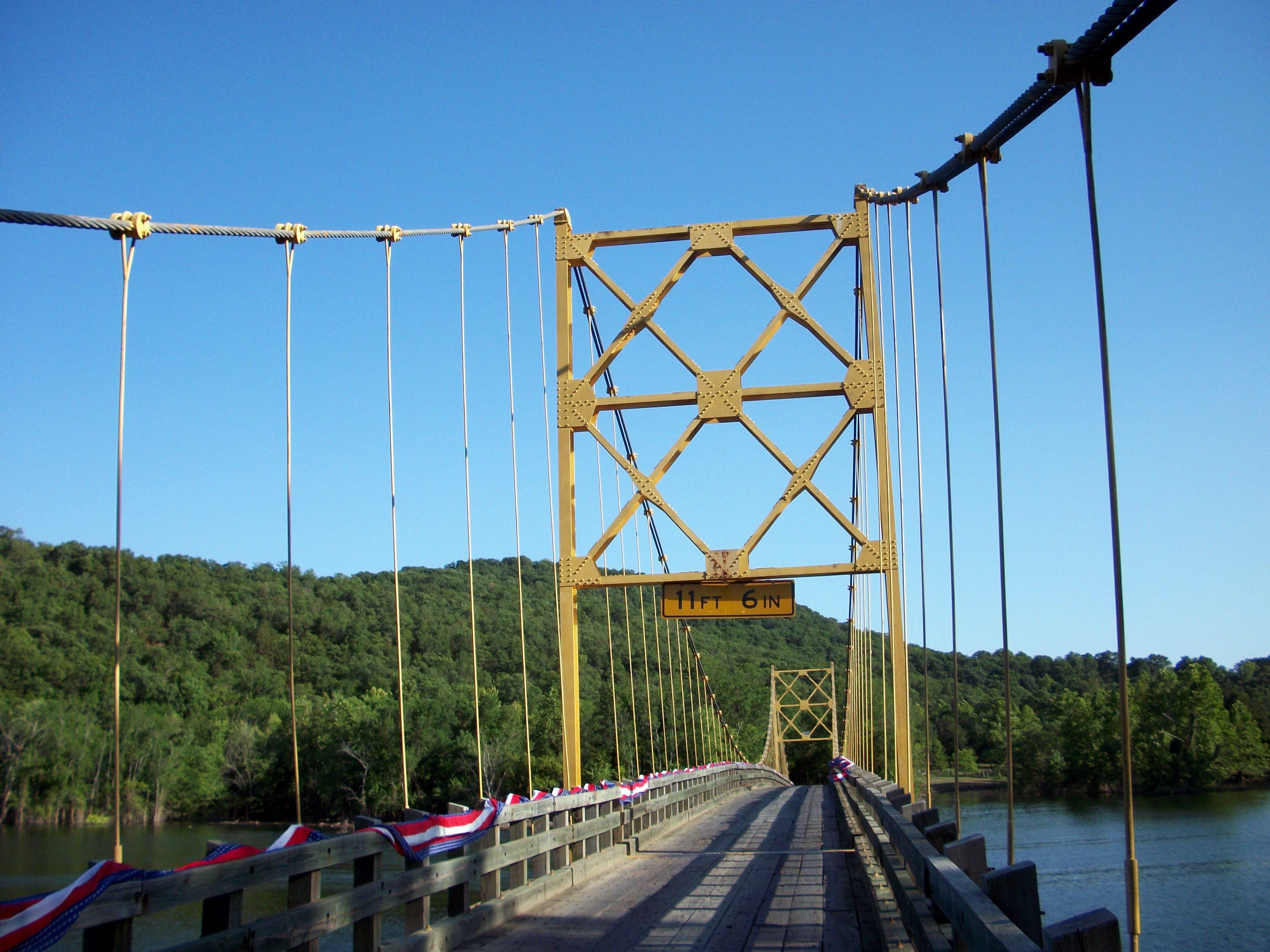 North panel on Beaver Bridge